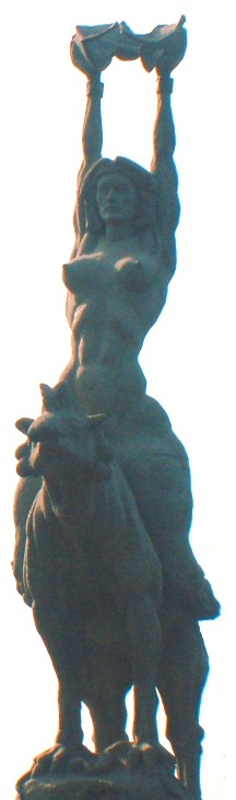 María Lionza (This picture was taken by me, Marcel A. Mata, on October 12th as I rode on the Francisco Fajardo Highway heading east in Caracas, Venezuela)